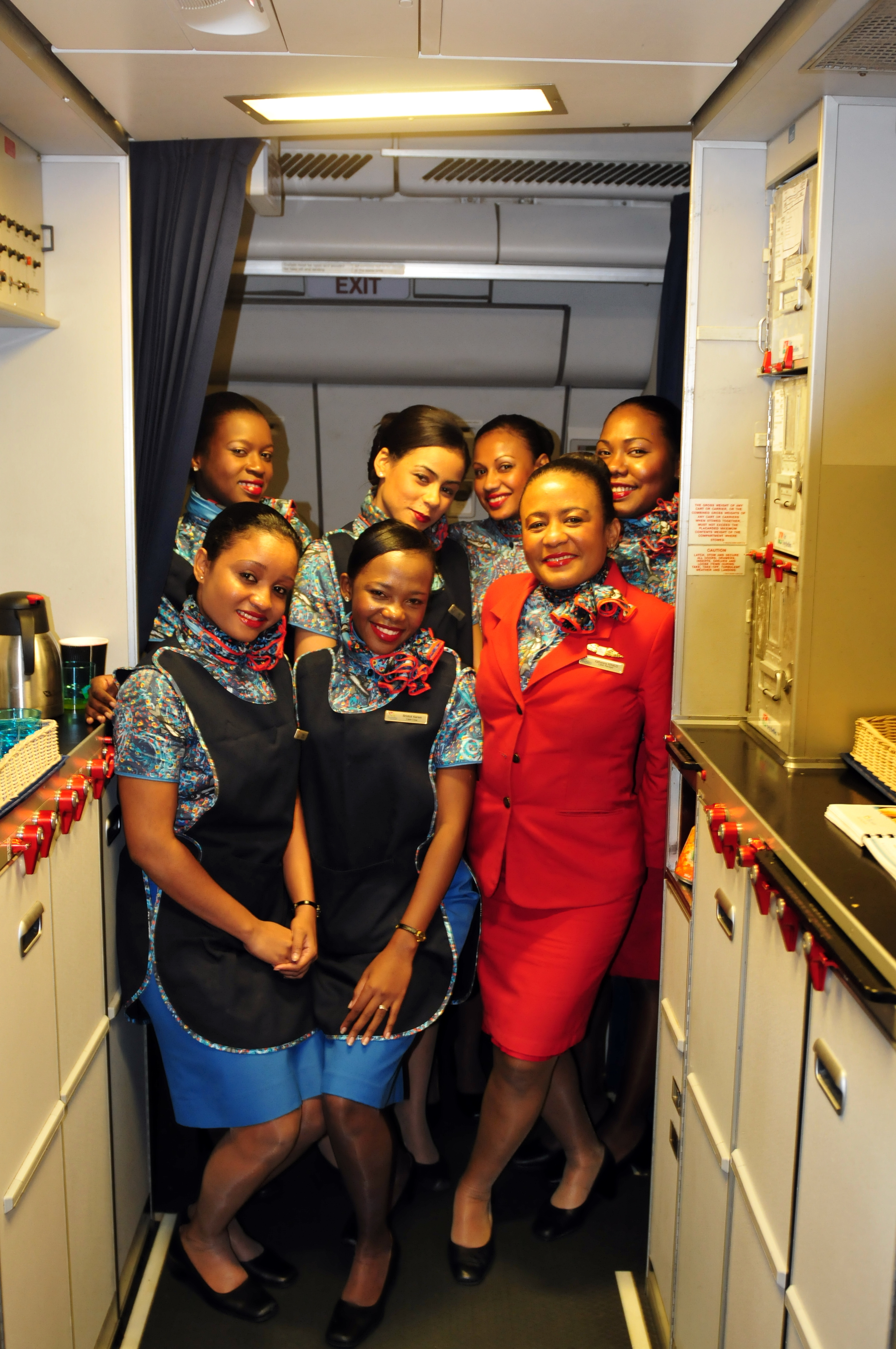 Flight attendants of Air Seychelles